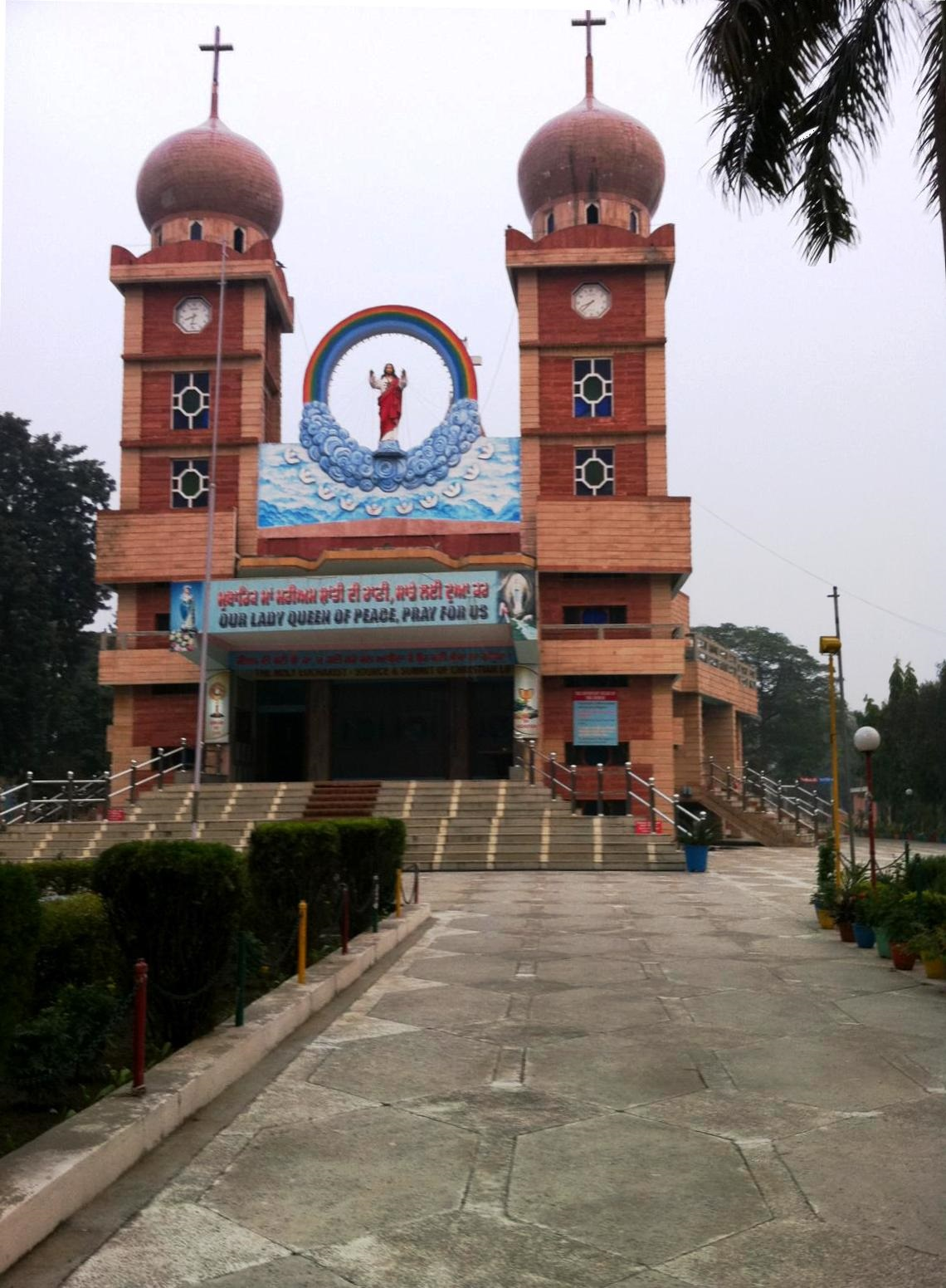 St. Mary's Cathedral in Jalandhar, India